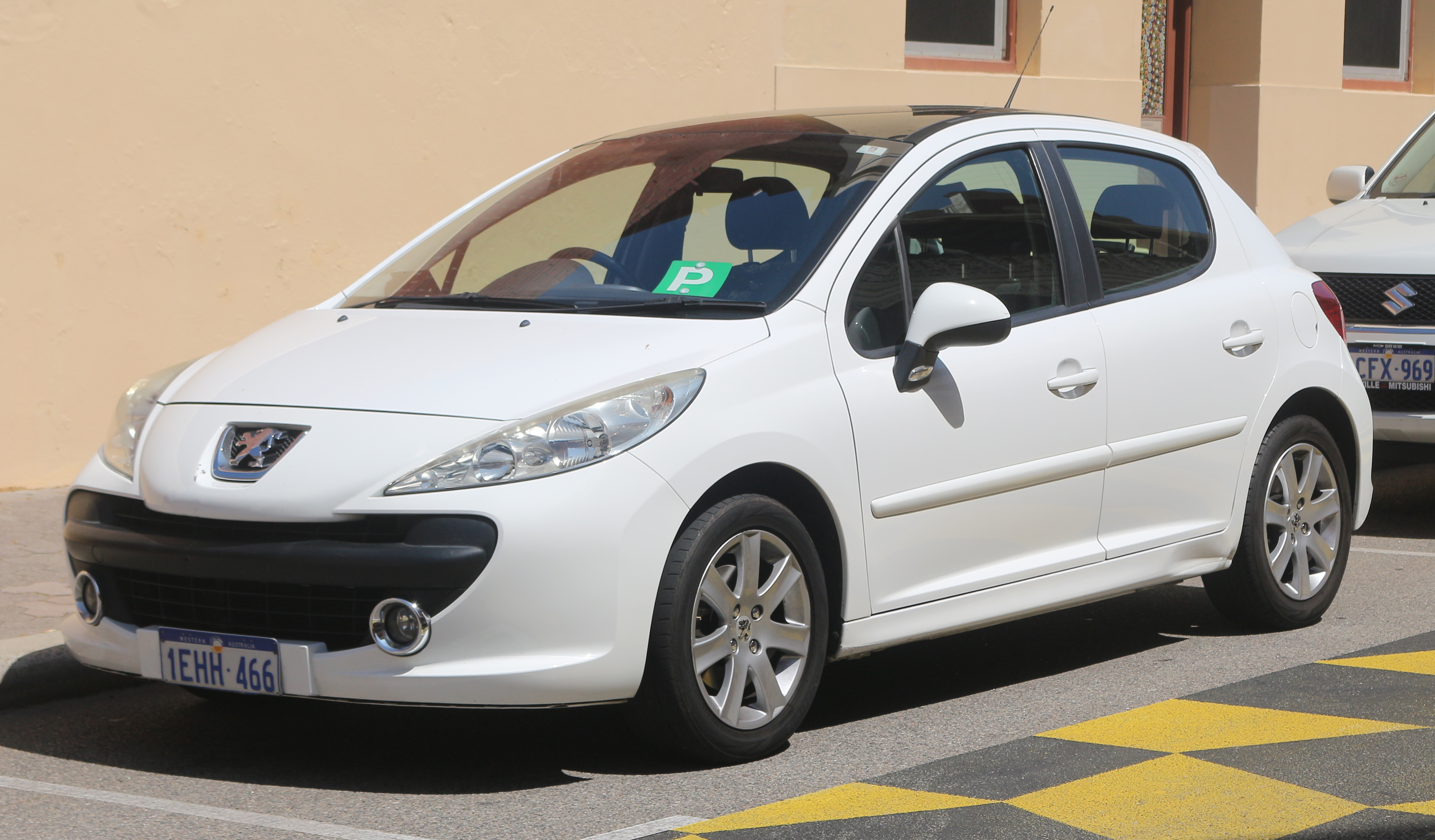 2007-2009 Peugeot 207 (A7) XE 5-door hatchback. Photographed in Fremantle, Western Australia, Australia.